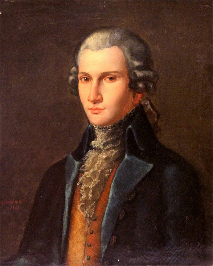 Portrait of Hermann Goldschmidt (1802-1866) - "Retrato masculino" (Male portrait), oil on canvas, 60x50 cm.